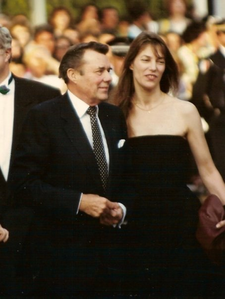 Dirk Bogarde and Jane Birkin at the Cannes film festival